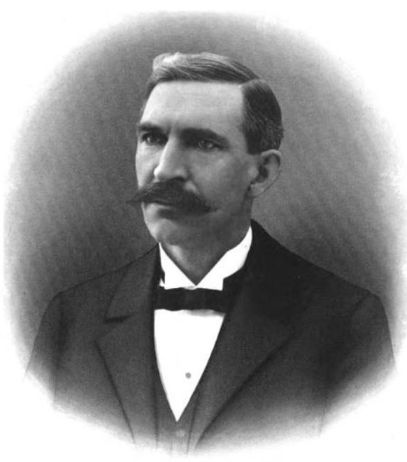 Rufus E. Brown (Vermont Attorney General)